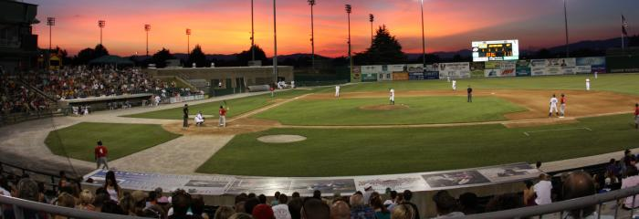 Lynchburg City Stadium - Calvin Falwell Field